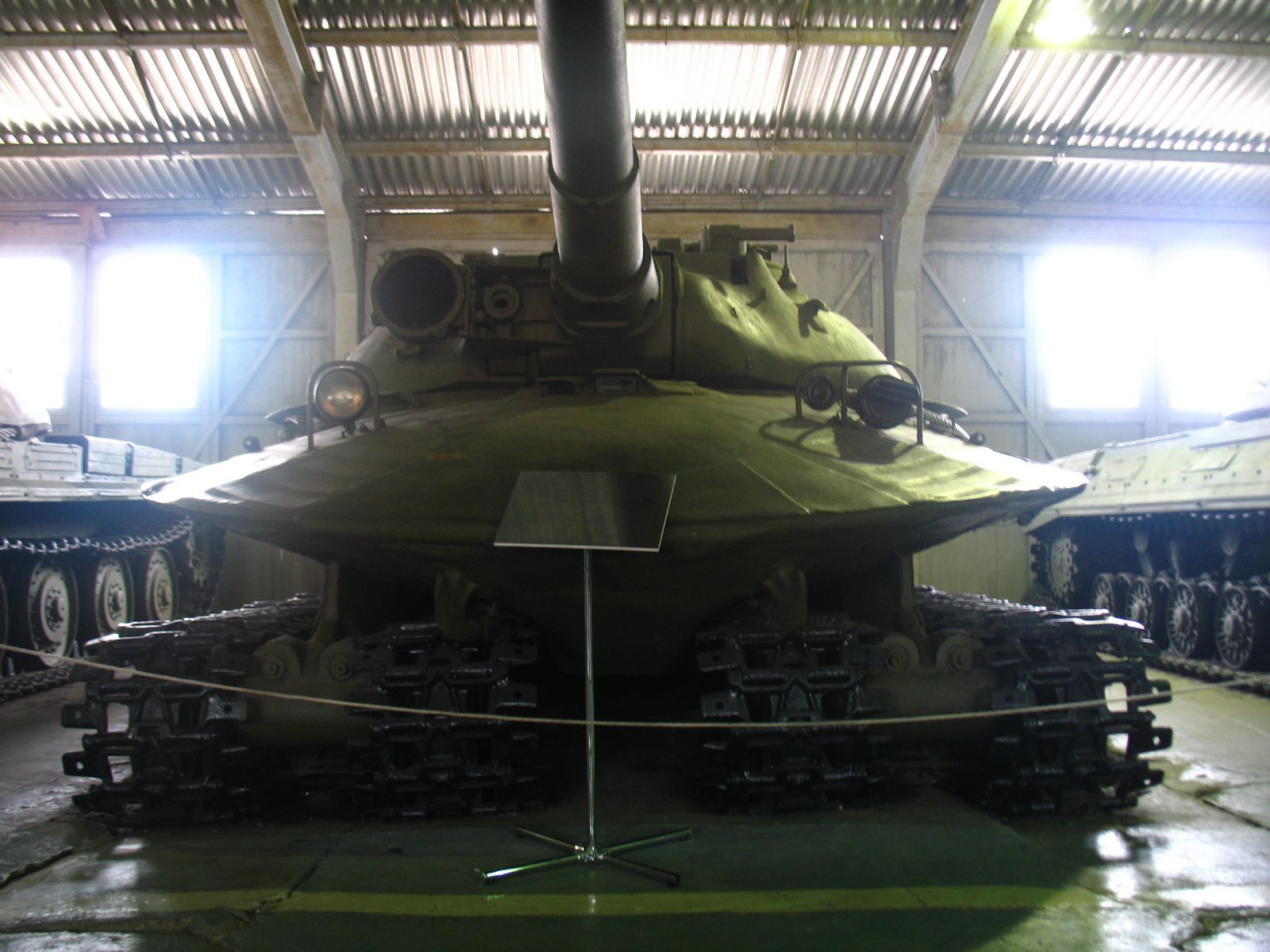 Object 279 (tank)